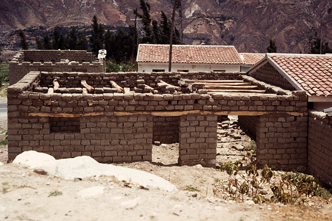 Callejón de Huaylas, Perú, 1981. Adobe house under construction. The photo was taken by Håkan Svensson (Xauxa).